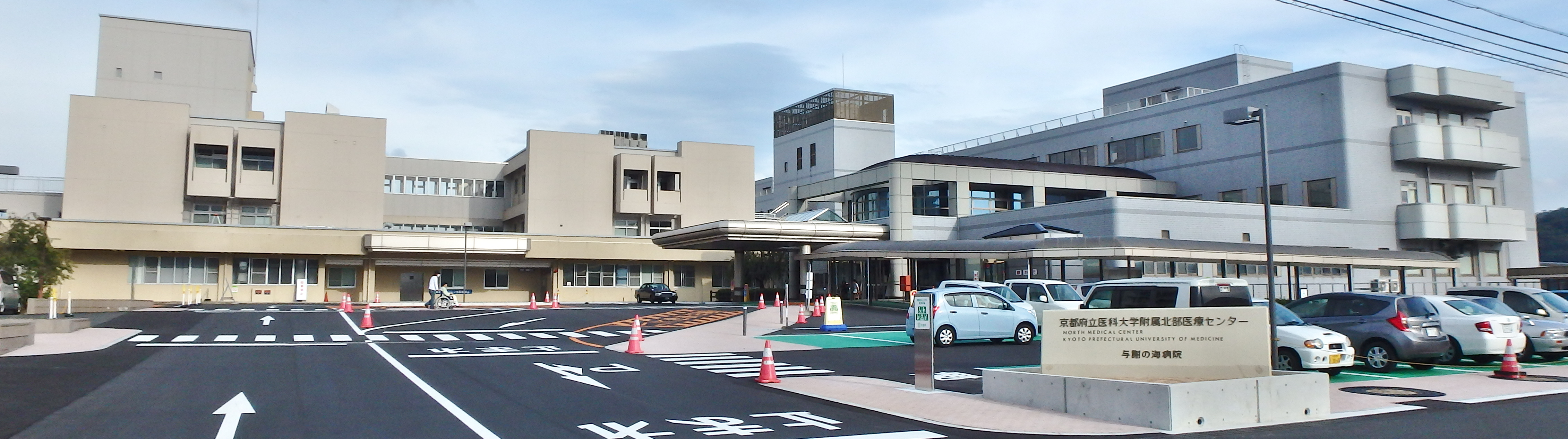 North Medical Center Kyoto Prefectural University of Medicine,Kyoto prefecture,Japan